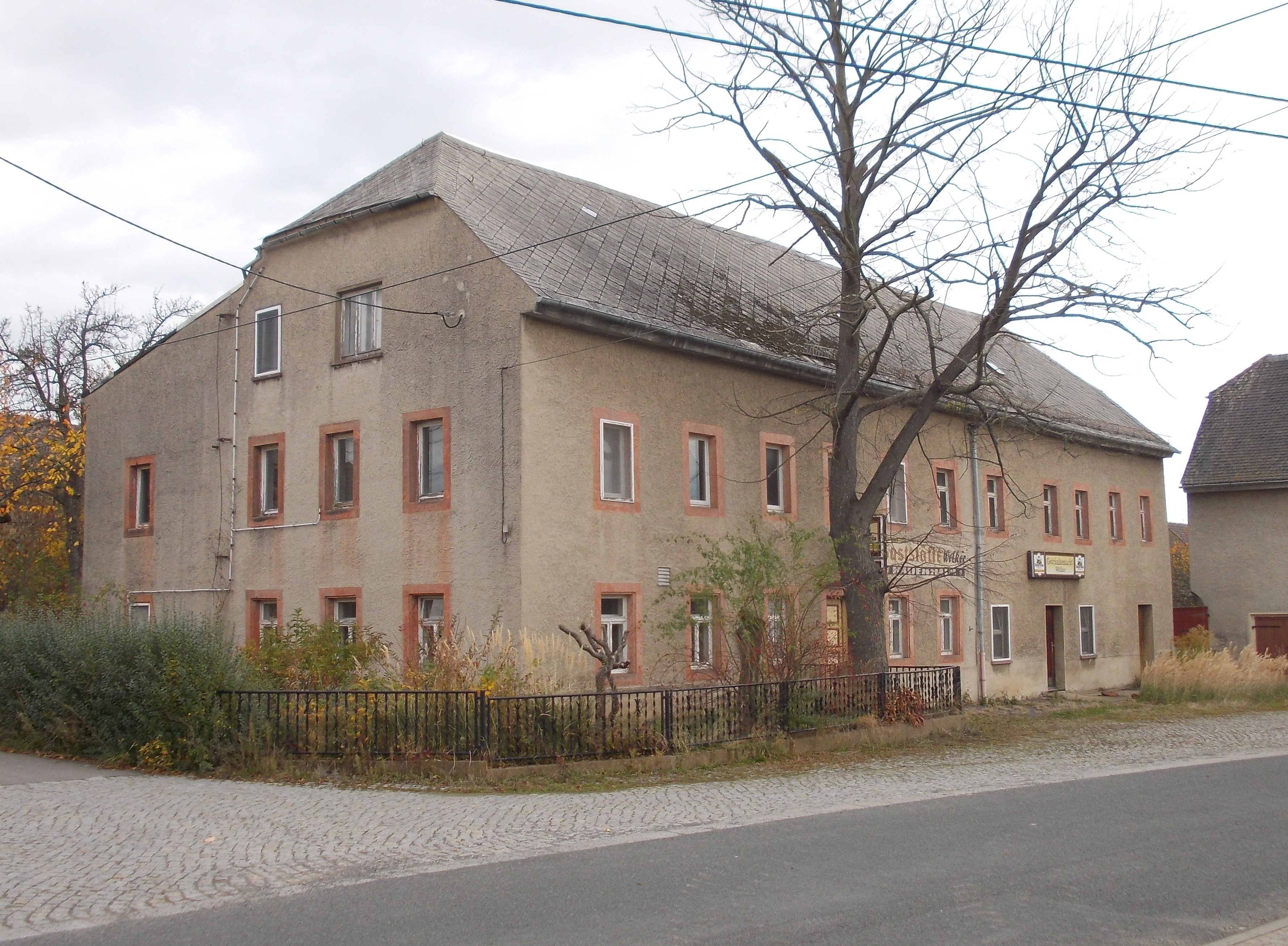 Former inn in Nauenhain (Geithain, Leipzig district, Saxony)